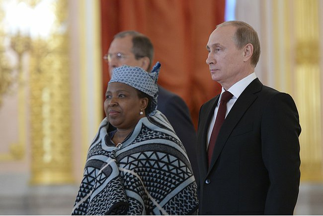 Presentation by foreign ambassadors of their letters of credence. With Ambassador of Kingdom of Lesotho Matlotliso Lineo Lydia Khechane-Ntoane.